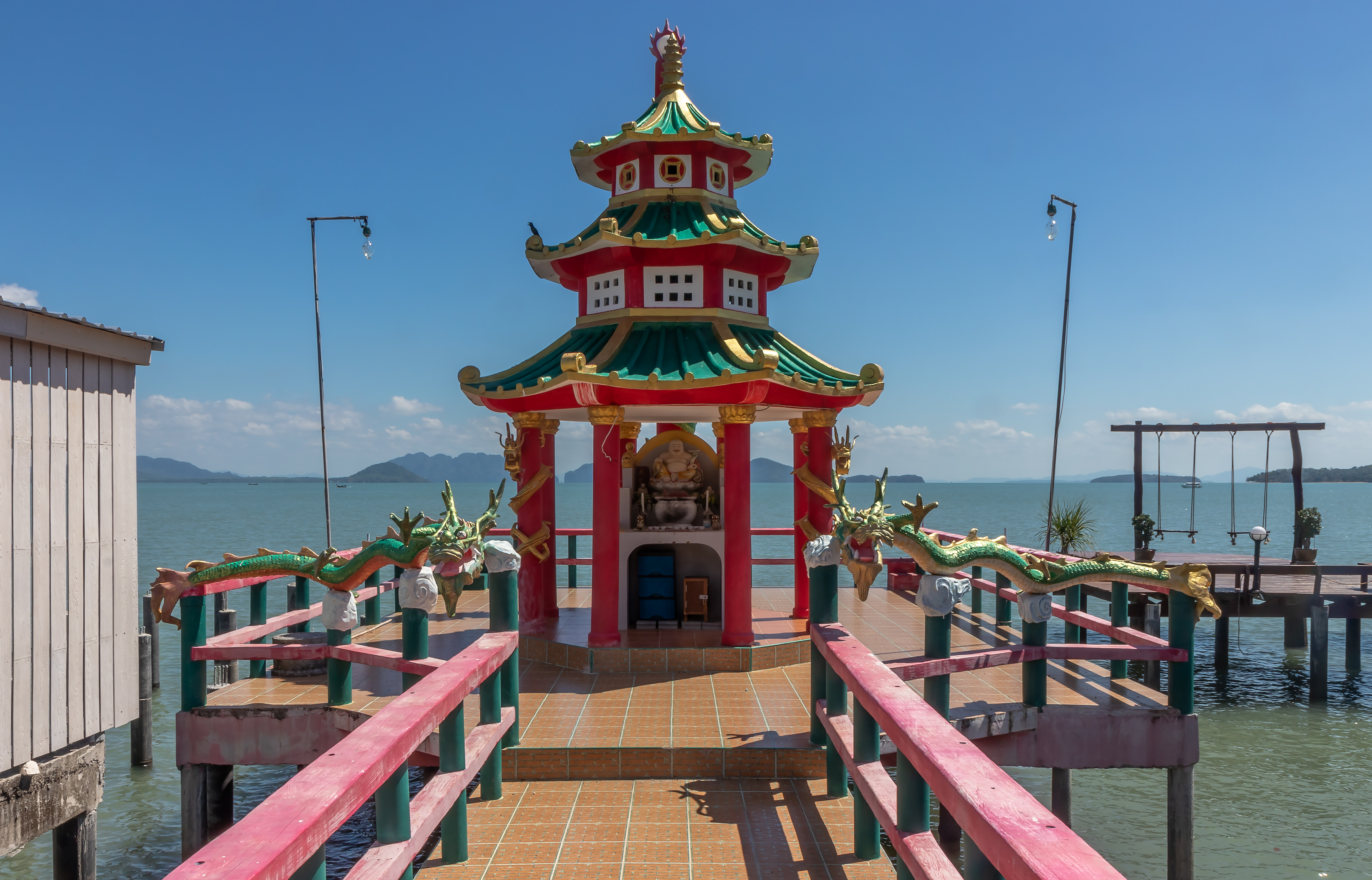 Maha Katyayana Shrine in Lanta Old Town, Ko Lanta, Thailand